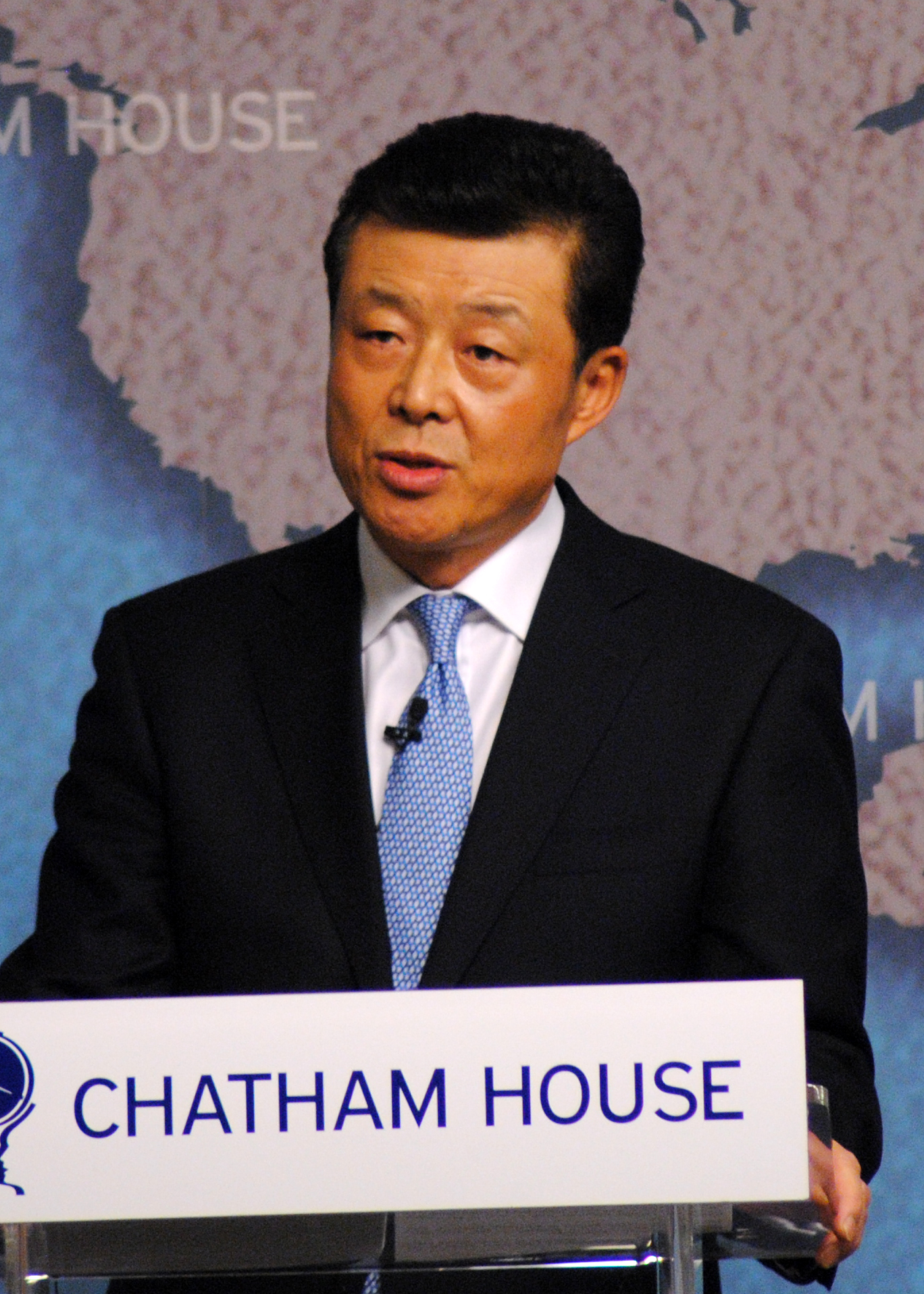 Political and Security Challenges in Asia: A Chinese Perspective, 5 February 2014, cht.hm/1eAMmeD